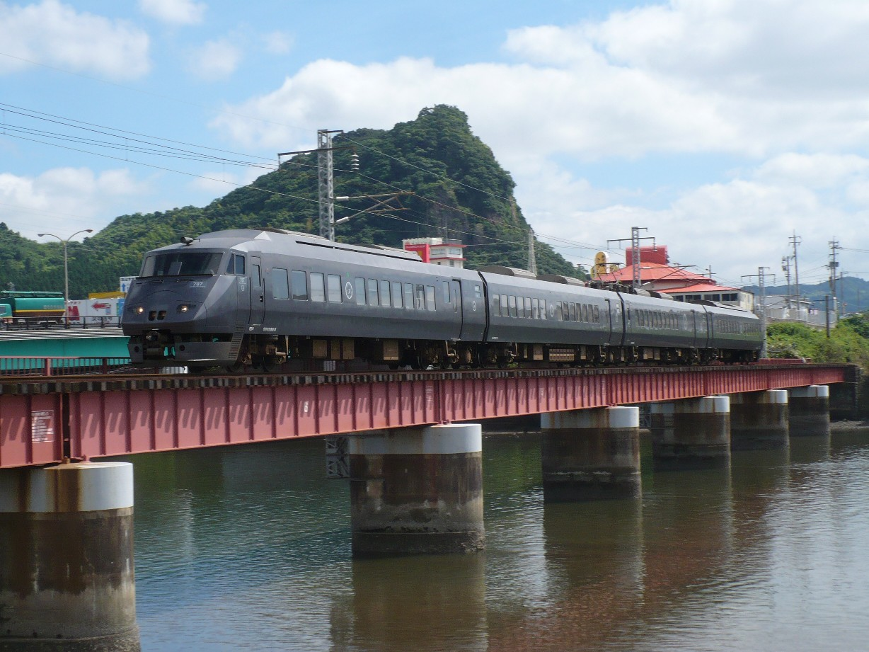 JR Kyushu Limited Express train "Kirishima" is crossing Beppugawa river, Aira, Kagoshima. The trainset is series 787.